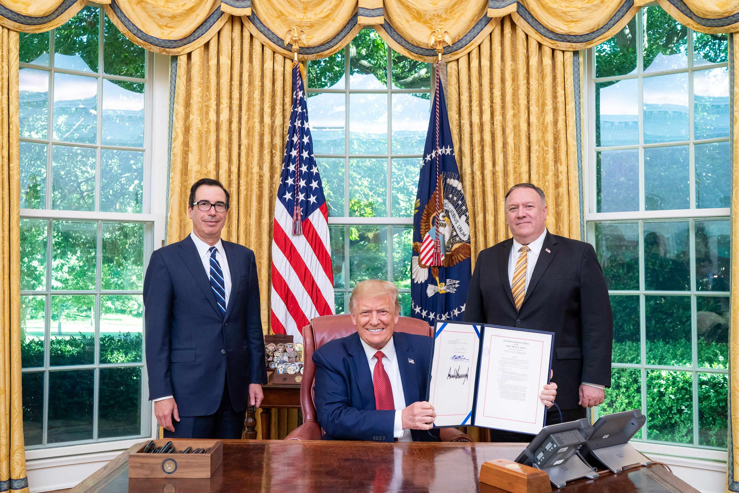 President Donald J. Trump, joined by Secretary of the Treasury Steven Mnuchin and Secretary of State Mike Pompeo, displays his signature after signing the unanimously approved H.R. 7440, the Hong Kong Autonomy Act, Tuesday, July 14, 2020, at his desk in the Oval Office of the White House. (Official White House Photo by Tia Dufour)